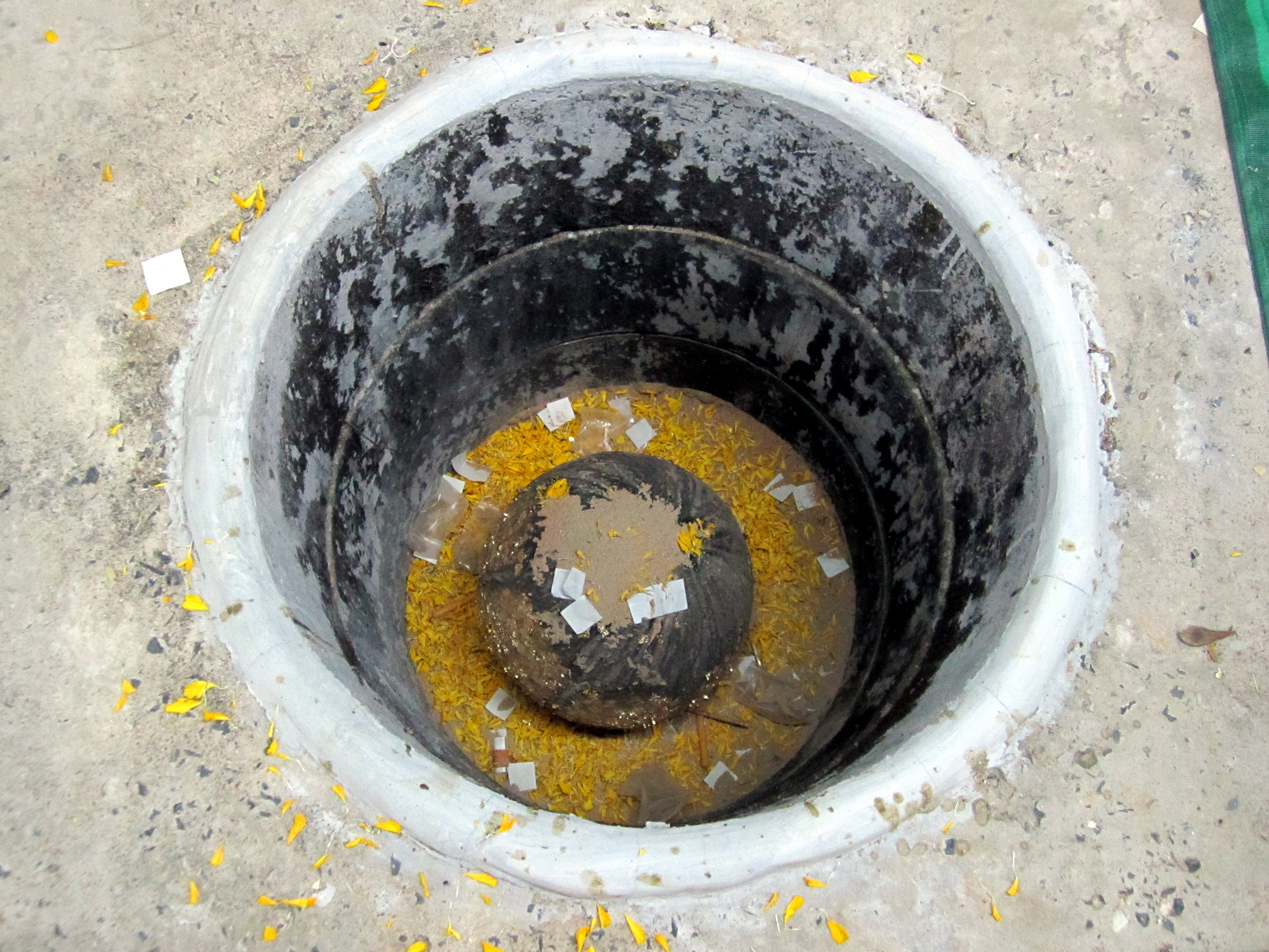 A sacred stone ball, Luk Nimit (ลูกนิมิต in Thai) has been consecrated and dropped in its pit in a Thai Ubosot under construction in Ban Dan Chumphon, Trat Province. This pit will be covered by a concrete lid and a Sema boundary stone will be erected on the very spot.